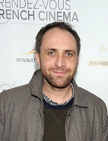 Armel Hostiou at the opening of the "Rendez-vous with french cinema" New York 2015